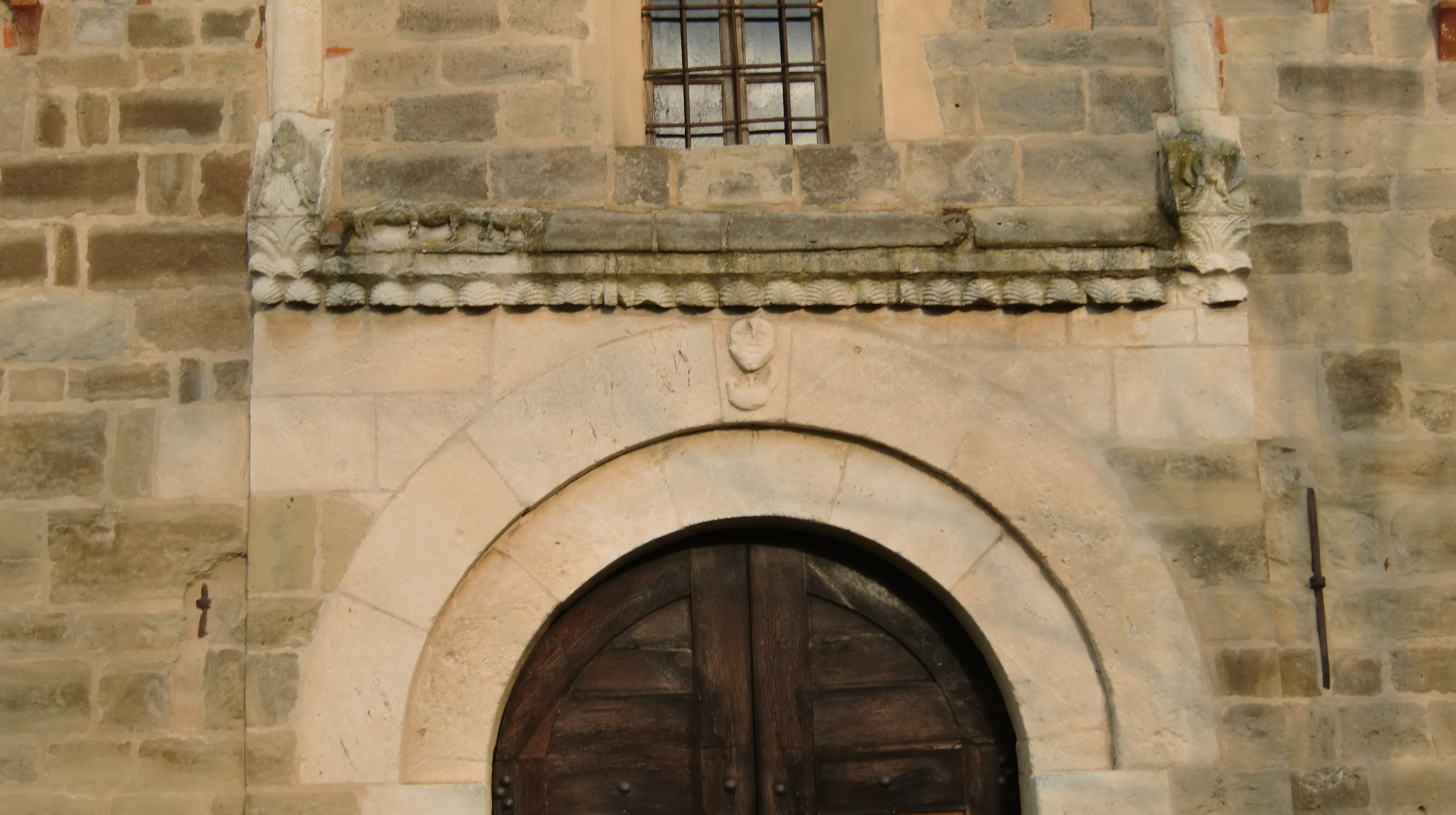 Chiesa di San Secondo, Cortazzone (AT), Italy, romanesque church, XII century, Archivolt and above it a frieze with shell motif